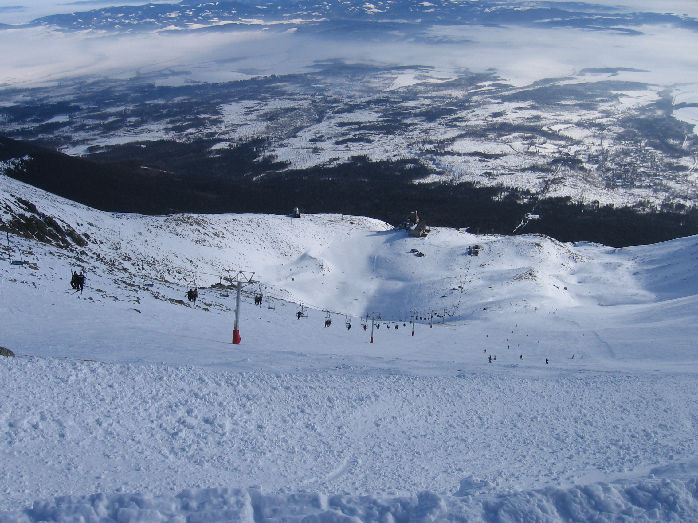 Skalnaté pleso in High Tatras in winter.